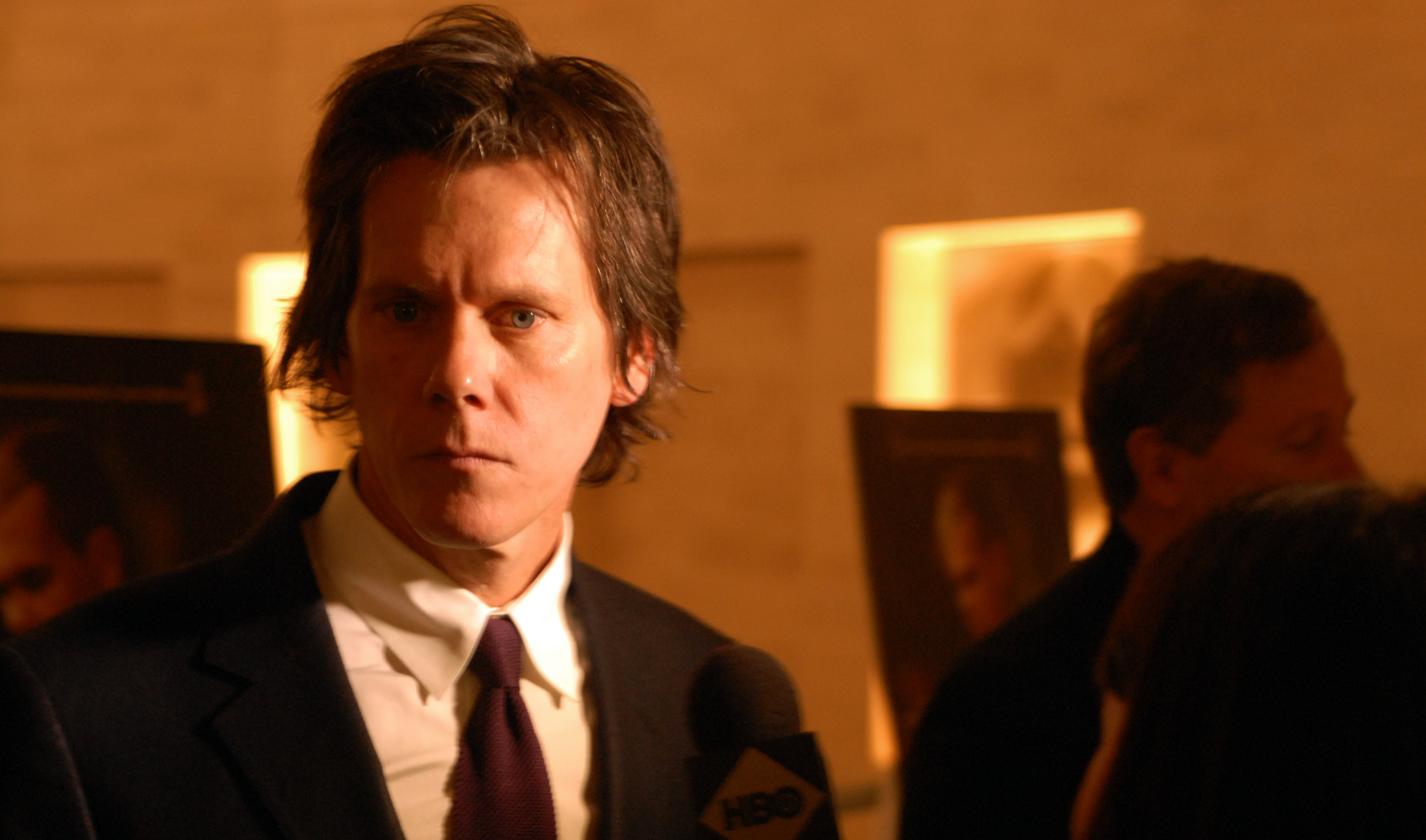 Actor Kevin Bacon, being interviewed here at a reception prior to the screening, played the role of Lt. Col. Michael Strobl who volunteered to escort a Marine’s remains across America from Dover Air Force Base, Del., to his hometown in Dubois, Wyoming.